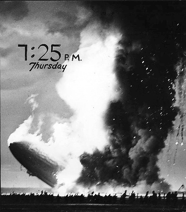 Photo of the Hindenburg which is now crashed and burning - May 6, 1937.